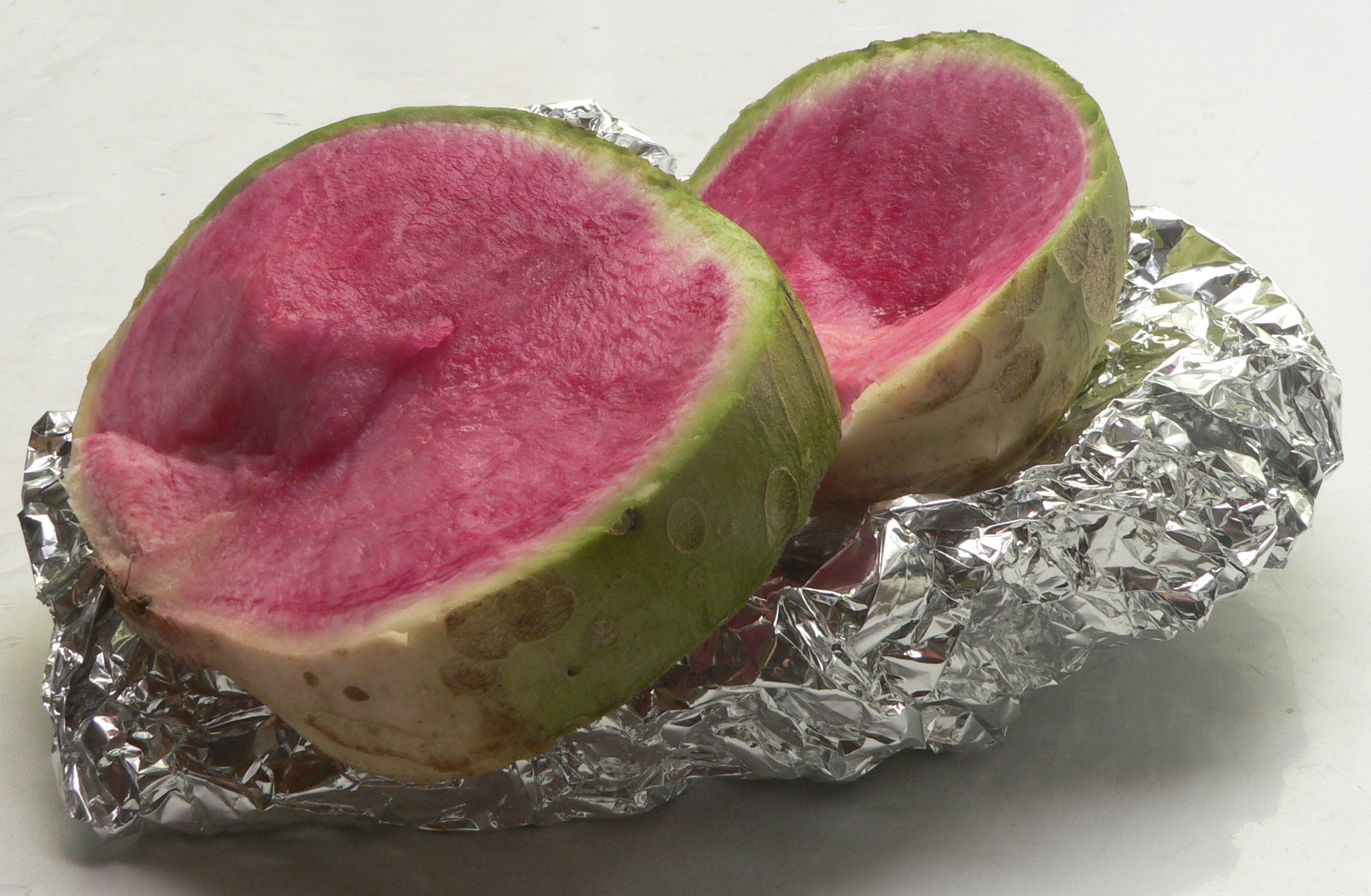 Chinese radish 'Mantanghong'